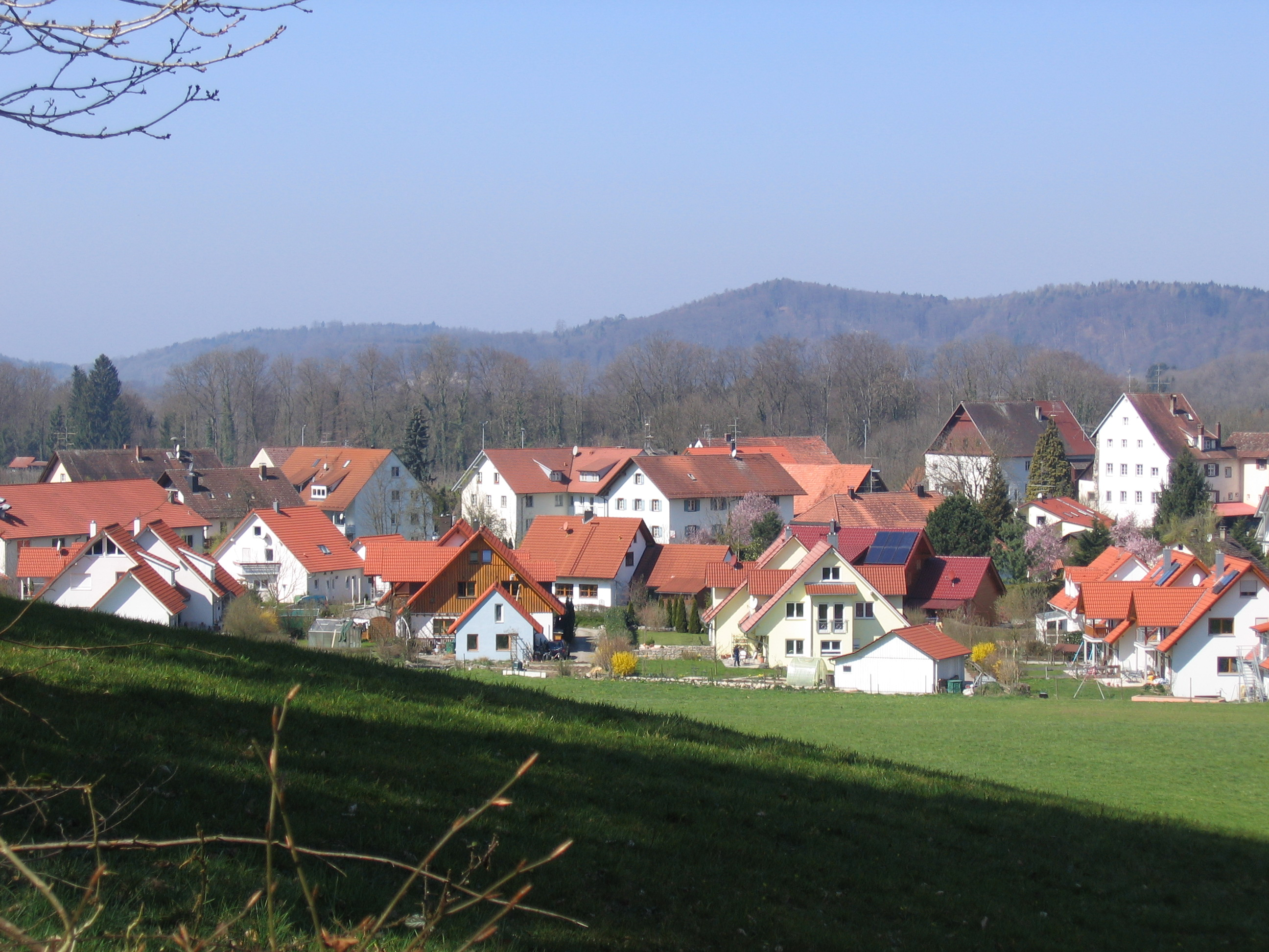 Germany - Baden-Württemberg - Bodenseekres - Tettnang: district Oberlangnau with ex-monastery